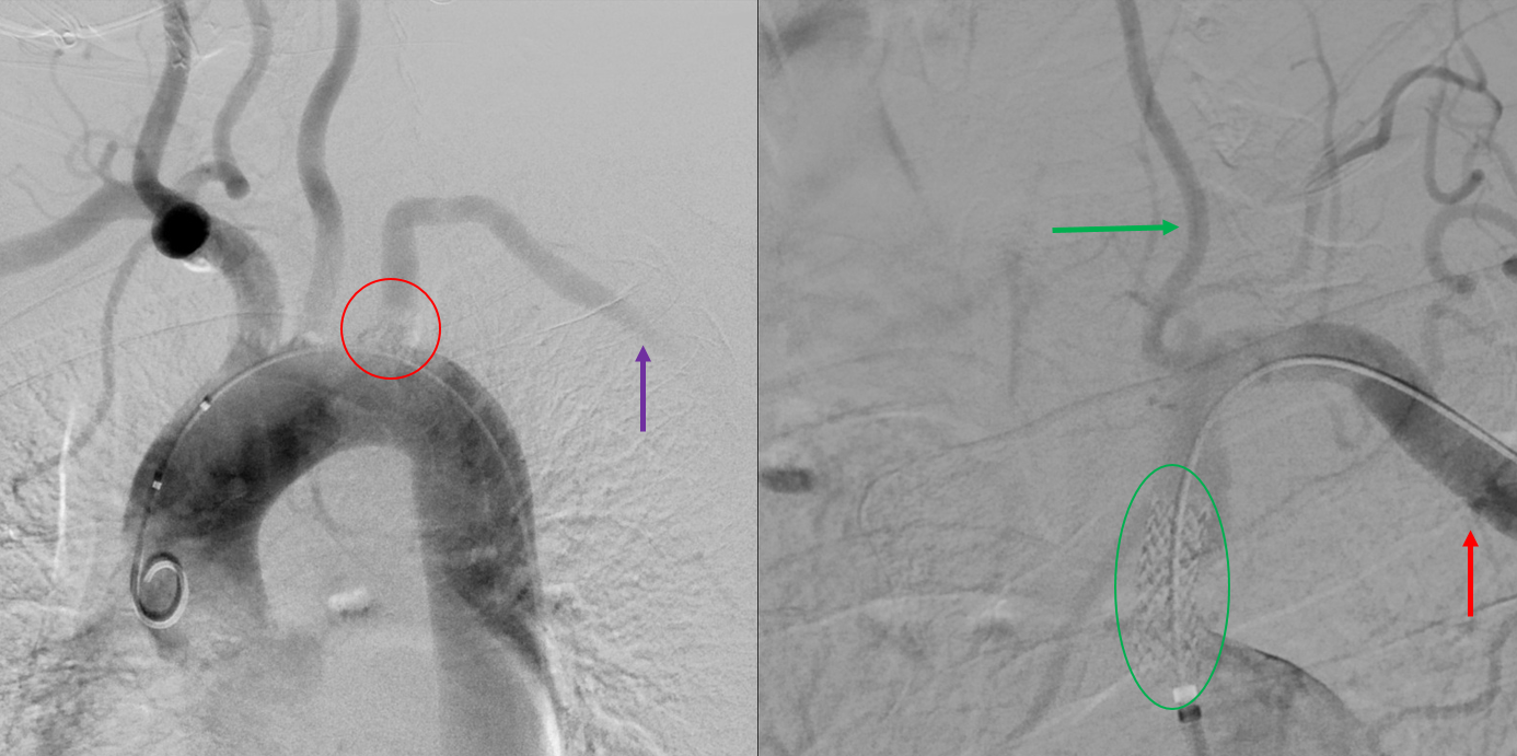 Angiogram of aortic arch. Right Image: Plaque of left subclavian artery (red circle) with decreased blood flow distally (purple arrow) and no contrast extending into the left vertebral artery. Left Image: Left subclavian artery stent placed (green circle) with improved distal blood flow (red arrow) and contrast extending into left vertebral artery (green arrow).